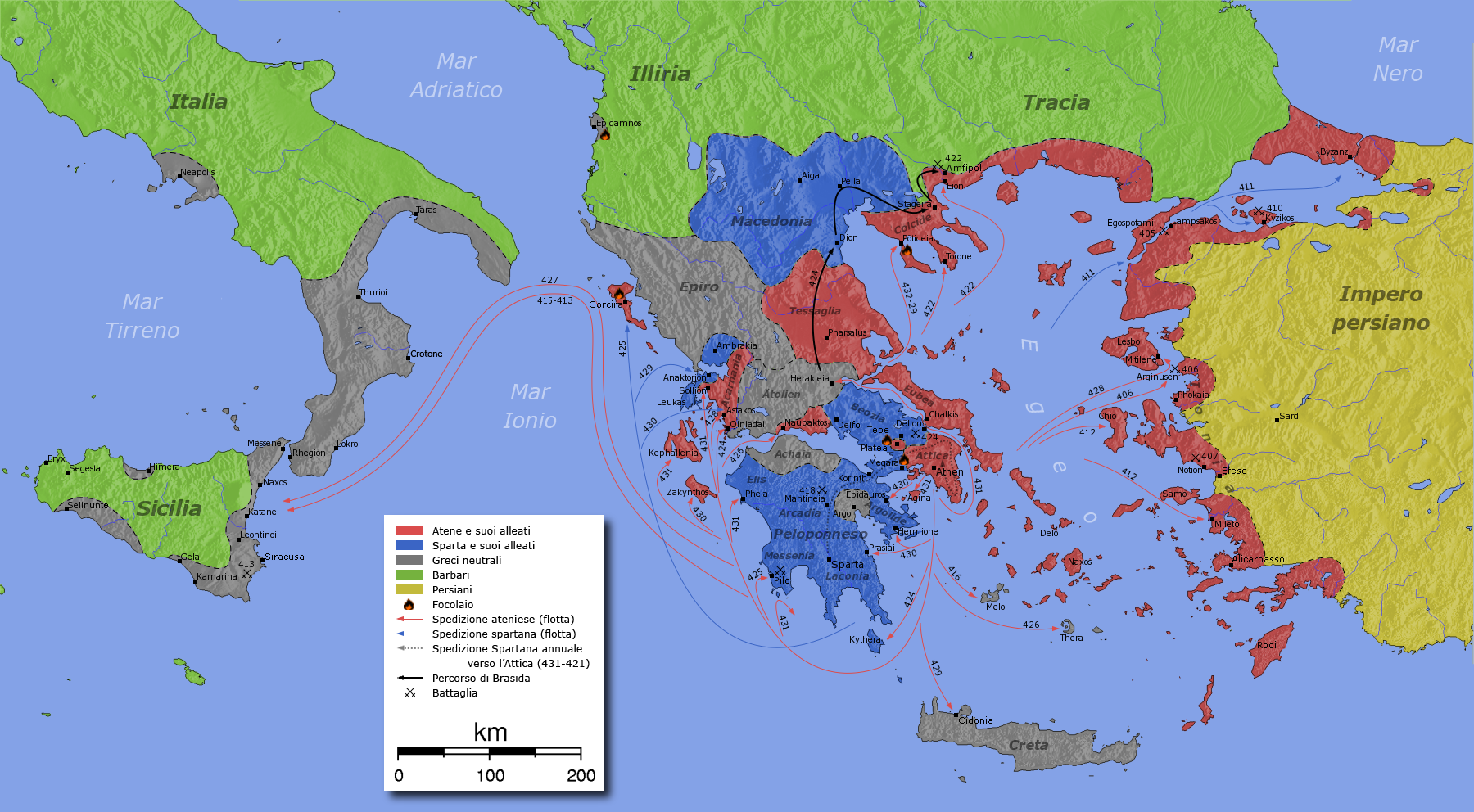 Peloponnesian War map